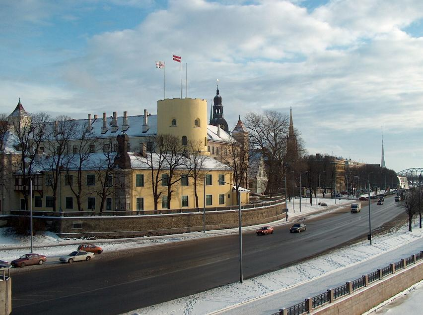 Rigas pils (Riga Castle), Riga, Latvia